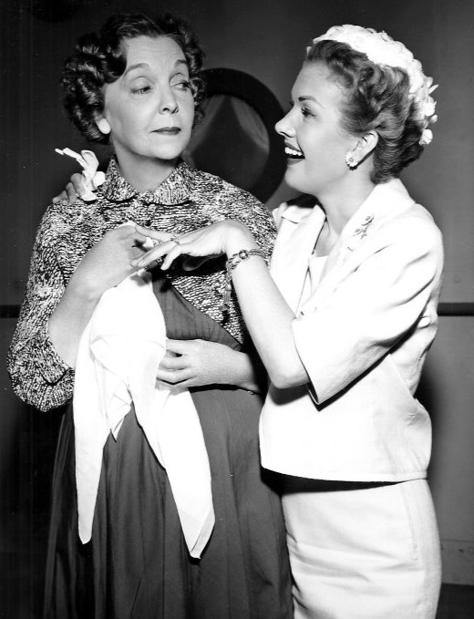 Photo of ZaSu Pitts as "Nugey", the beautician, and Gale Storm as Susanna. Susannah has just become engaged to an Air Force officer and shows off her ring to Nugey.